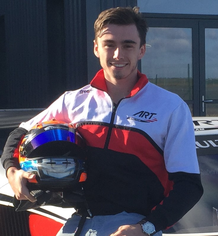 Raoul Owens race testing for ART Junior Team in France